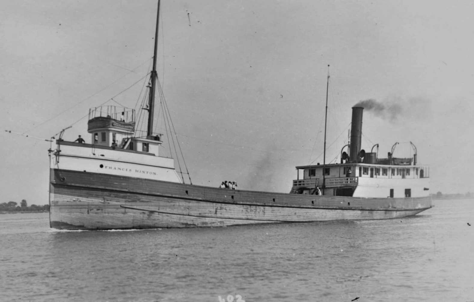 The steamer Francis Hinton underway